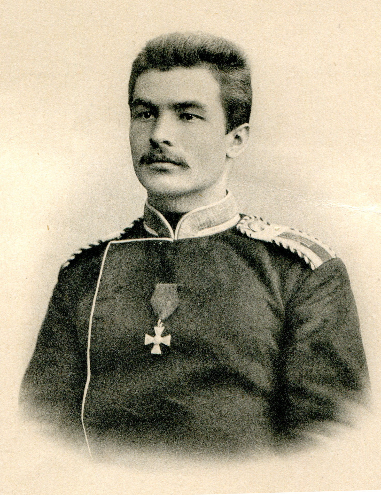 Kozlov, Pyotr Kuzmich (1863-1935) - Russian explorer of Mongolia. Xinjiang and Tibet.